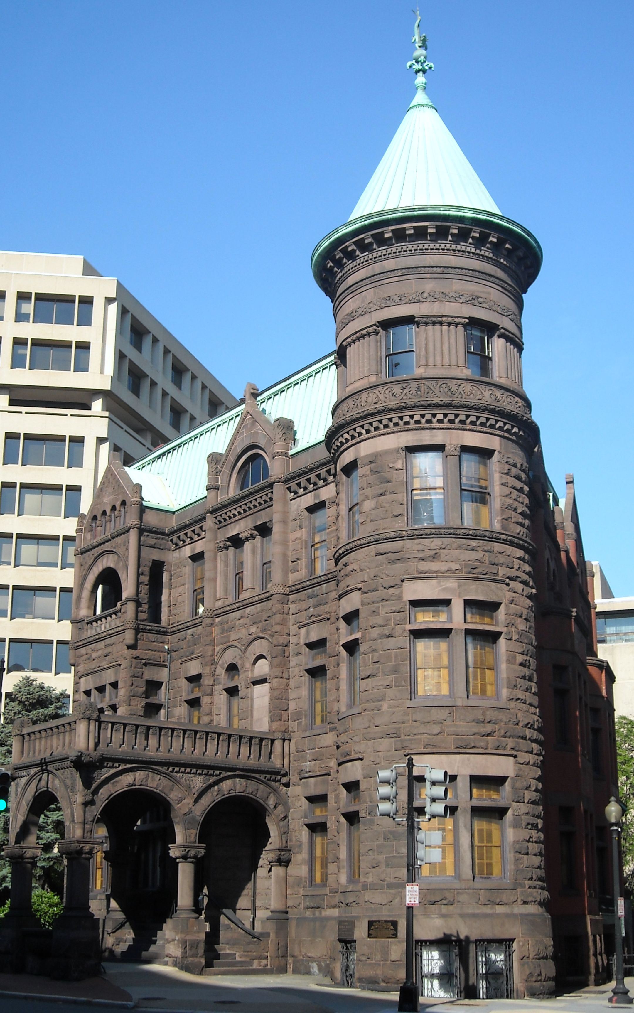 Christian Heurich Mansion, aka the Brewmaster's Castle, on New Hampshire Avenue in Washington, D.C. The building is listed on the National Register of Historic Places.